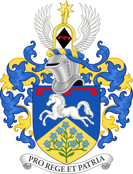 coat of arms of Peter Phillips Coat of arms granted to his grandfather : Arms. Per chevron Azure and Or in chief, a horse courant Argent and in base a sprig of forget-me-not flowered, slipped and leaved proper. Crest. On a Wreath of the colours, a spur rowed upward or, winged argent, enclosing a lozenge sable. Motto. Pro rege et patria (For king and country). D. H. B. Chesshyre, "Heraldry: Captain Mark Phillips C.V.O.", British History Illustrated, V, 3 (Aug-Sept 1978), p. 45